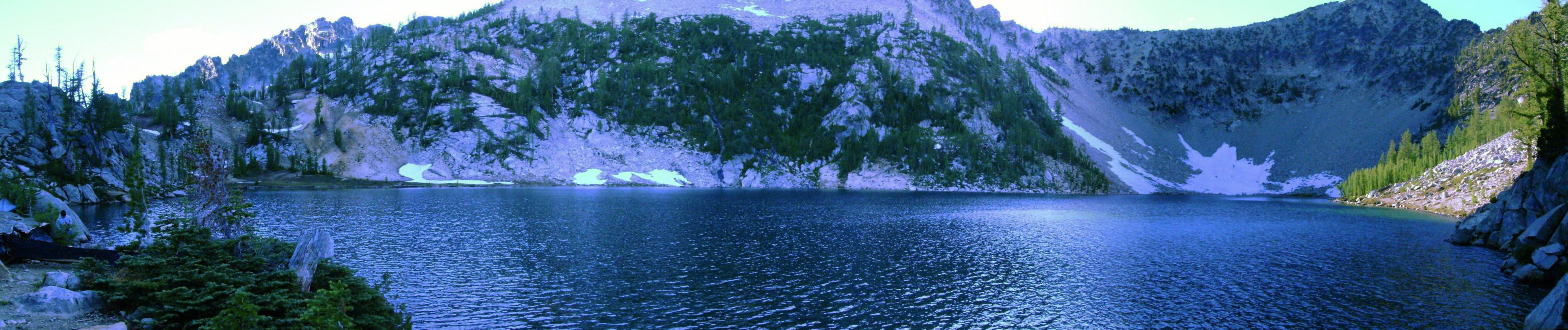 Fern Lake in Washington state, part of the Glacier Peak Wilderness